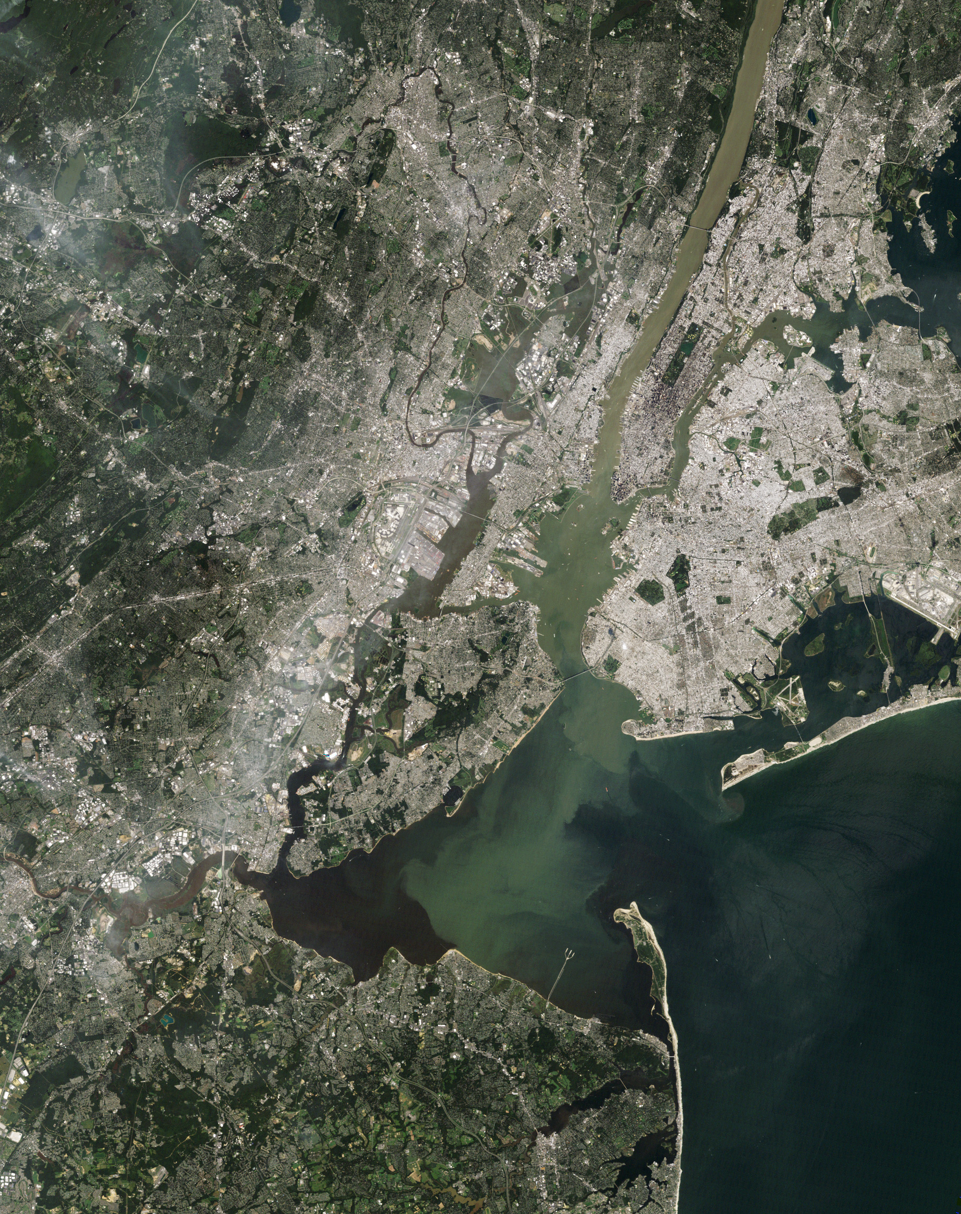 In the wake of heavy rains from Hurricane Irene, sediment filled many rivers and bays along the U.S. East Coast. New York’s Hudson River and estuary was no exception. In this true-color satellite image, pale green and tan water flows past Manhattan and mixes with the darker waters of New York Harbor and the Atlantic Ocean. Sediment plumes are prominent in Delaware Bay and along the Maryland, Virginia, and North Carolina coasts. Also, the Delaware, Hudson, and other rivers stand out as tan and brown tracings far into the interior landscape. In the scene above, fresh water of the upper Hudson has likely pushed all the way down near Manhattan, in a river that is usually a saltwater mix well into upstate New York. Tides and currents in the harbor send pulses of sediment-laden water into Raritan Bay (lower left), the Atlantic, and even up the East River into Long Island Sound. The color of the water generally depends on the amount and type of sediment, as the green, tan, and deep brown areas have varying degrees of suspended silt, sand, mud, leaf tannins, and other organic matter. Note, for instance, the darker brown tinting near the Passaic River in New Jersey (image left). The brightness, or reflectance, of the water is also an indication of how close to the top of the water column those sediments are moving.